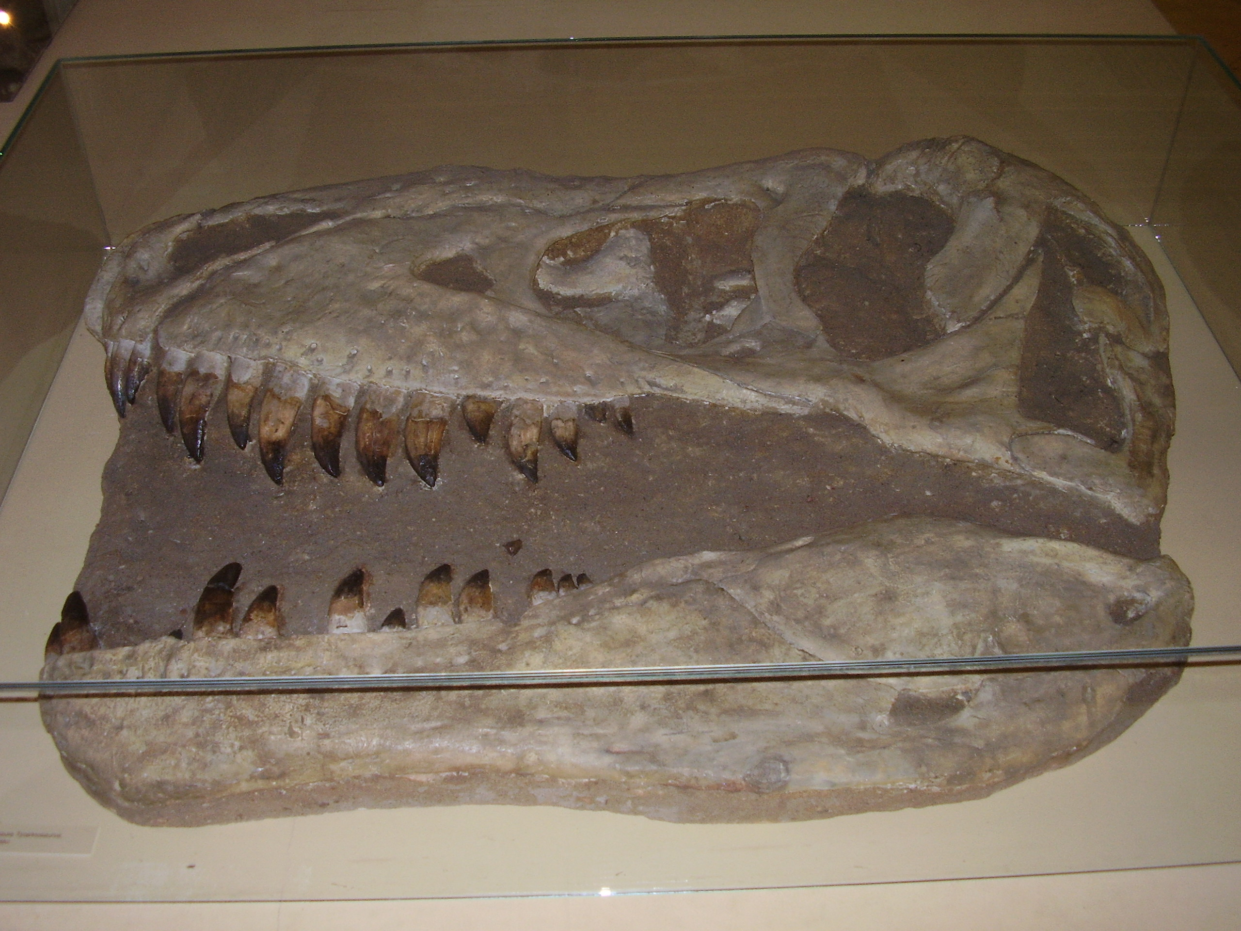 Cast of a Tarbosaurus bataar skull, National Museum in Prague (2007).